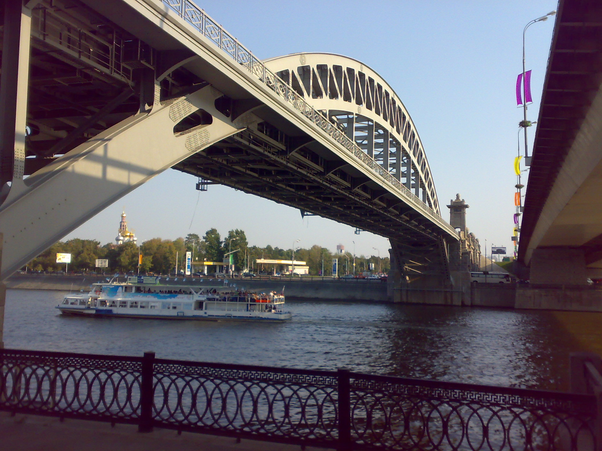 took this image using my mobile phone, on 7 September, 2008. Krasnoluzhsky Rail Bridge across the Moskva River, Moscow.